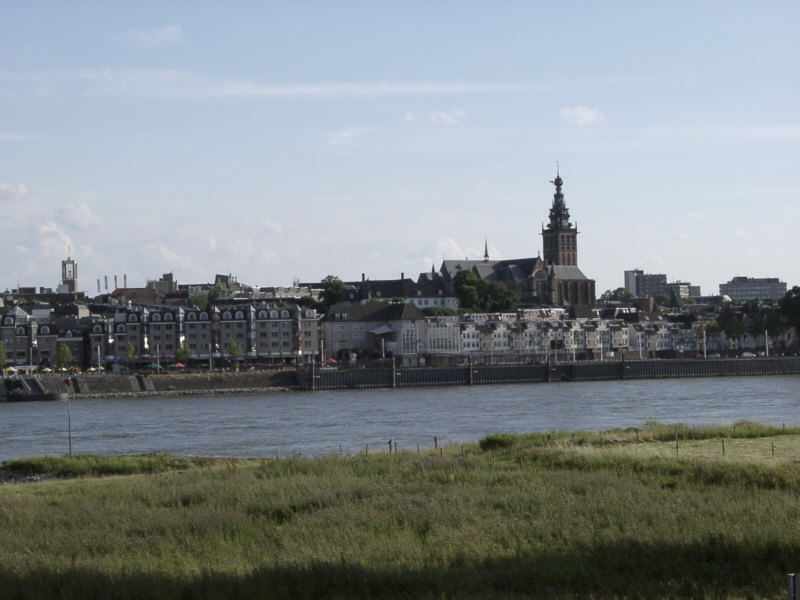 View to the Walkade of Nijmegen